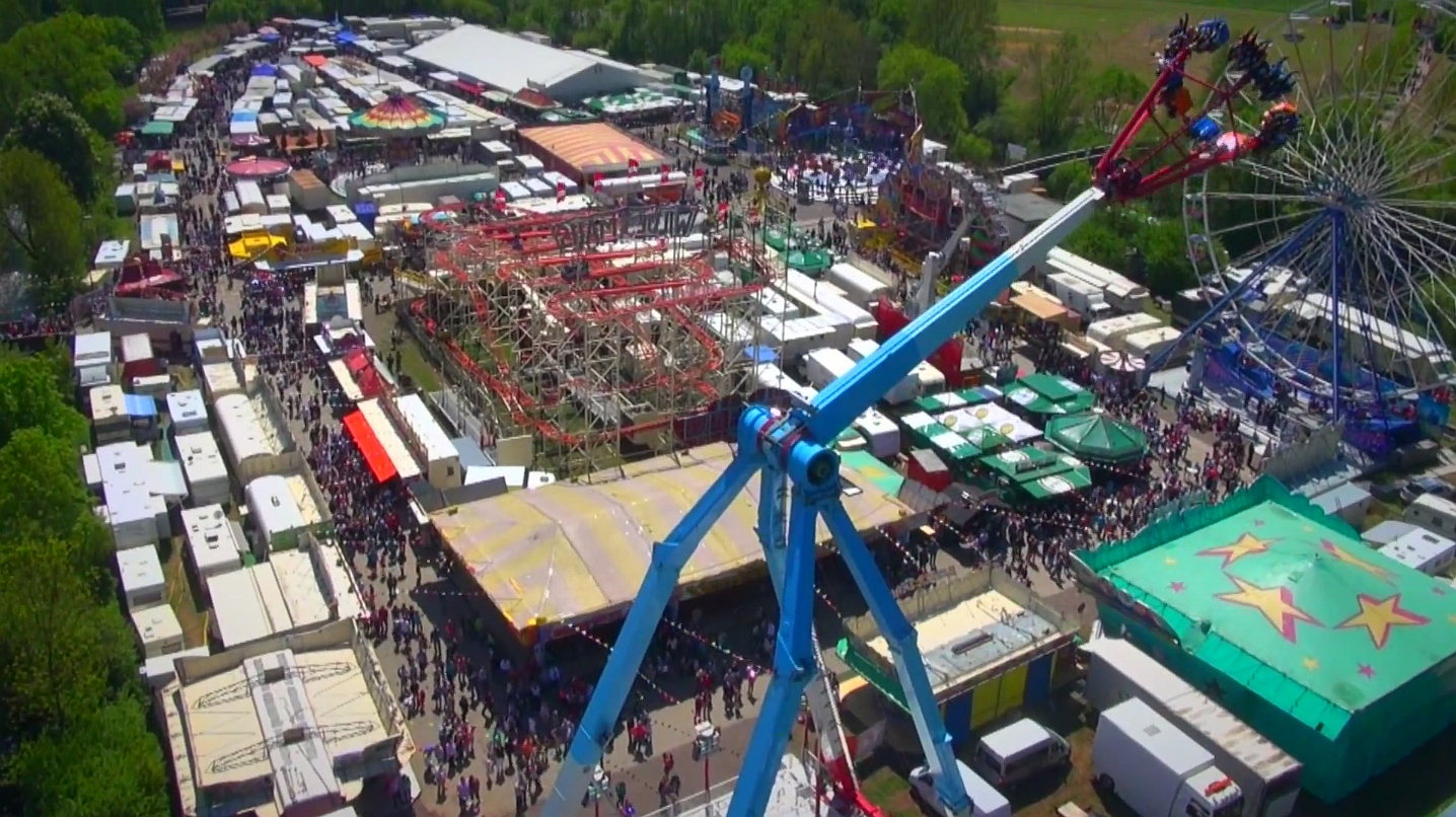 Bild einer Kamera-Drohne